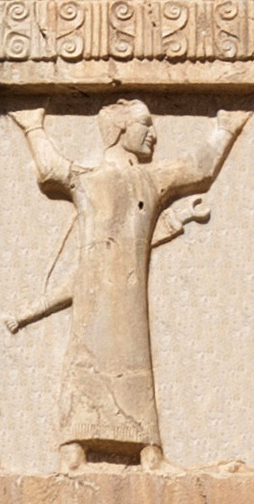 With portrait detailXerxes I tomb Egyptian soldier circa 470 BCE